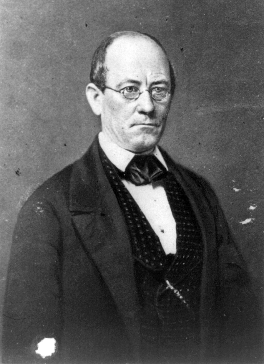 John Letcher, Gouverneur of Virginia